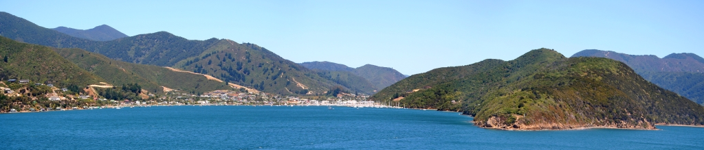 Author: Dean S. Pemberton Date: 26 Feb 2006 Taken from the Interisland ferry "Kaitaki" Looking back into Waikawa Bay. "The Snout" headland can be seen on the right hand side of the image.